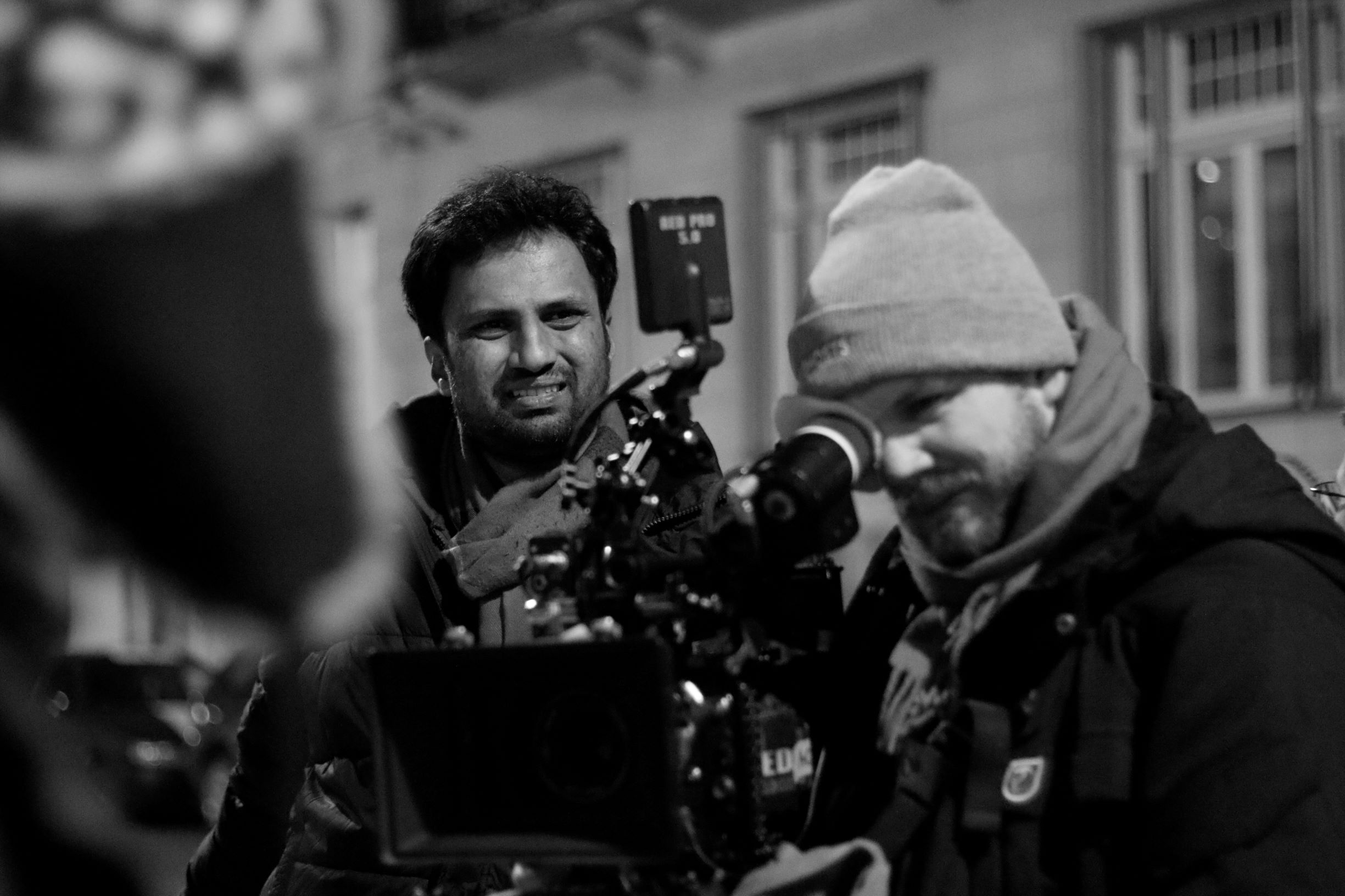 Behind the scene of Aaron film